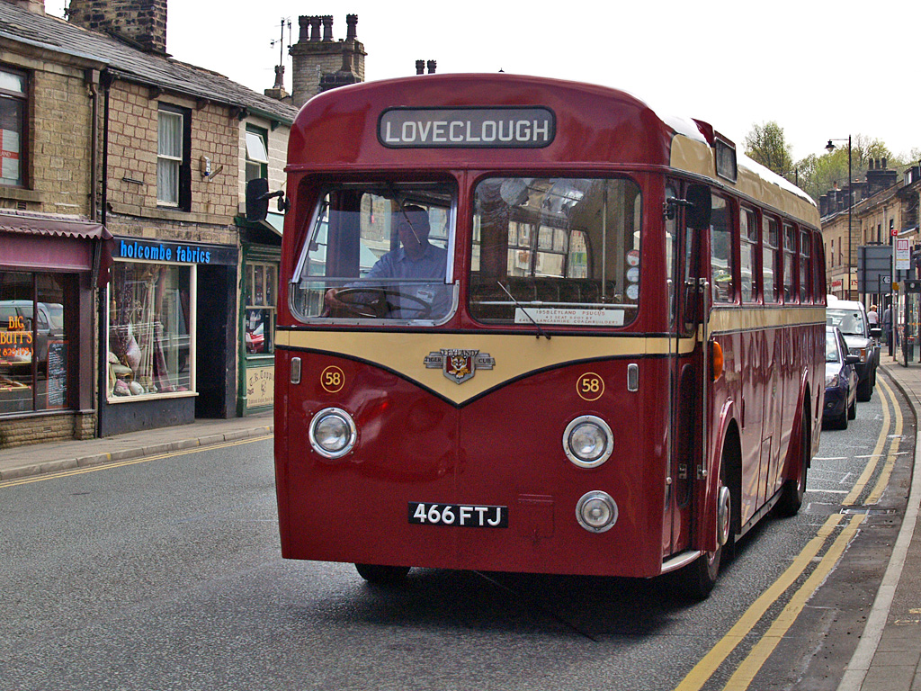 Rawtenstall Corporation Transport 58 466 FTJ, a Leyland ‘Tiger Cub’ PSUC1/5 built 1958 with an East Lancashire B43F body on Bolton Street, Ramsbottom. Tuesday 6th May 2008